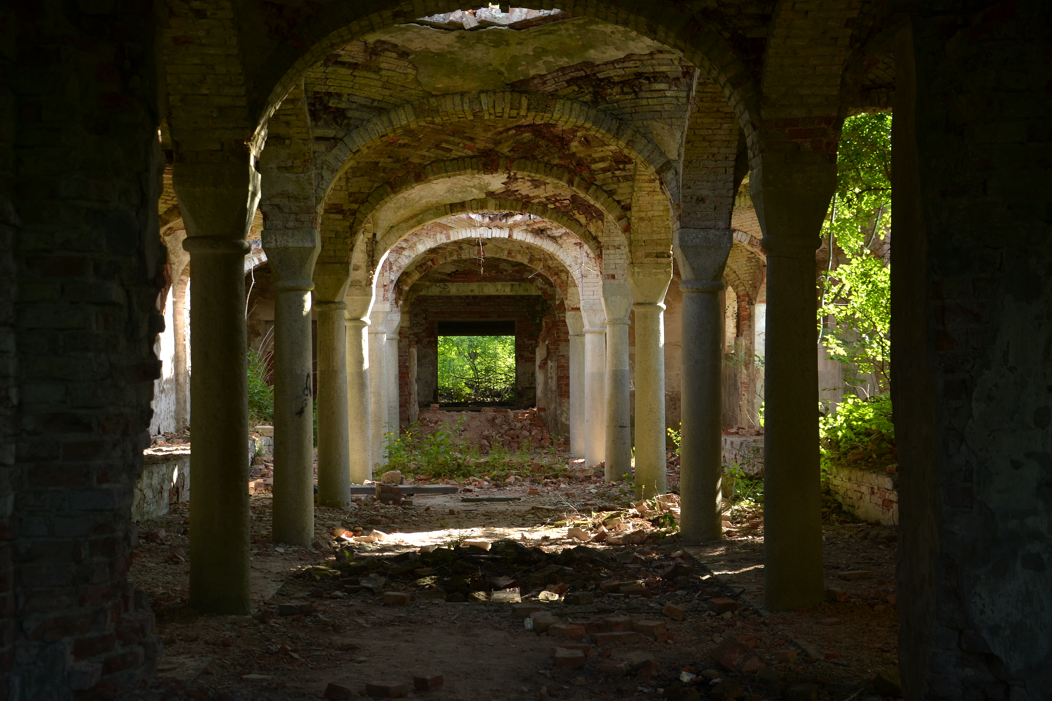 Old stable in Kleuschnitz (Klucznik), Silesia, Poland